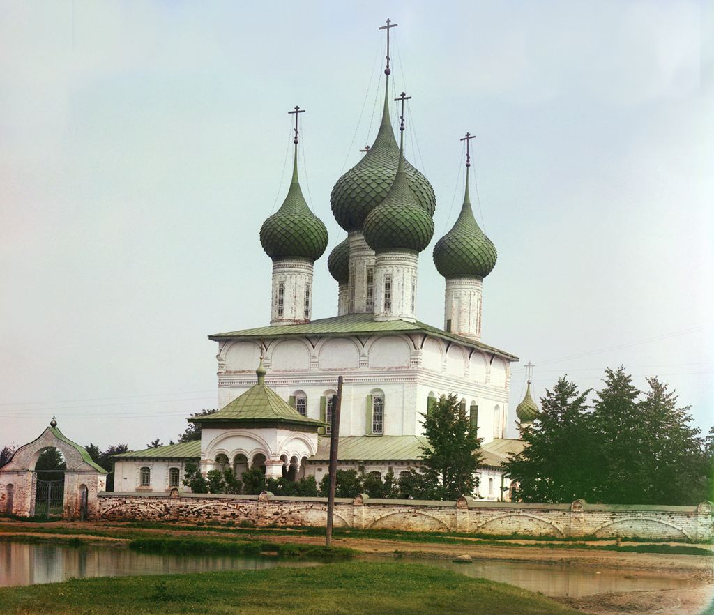 Church of the Fyodorovskaya Mother of God. Yaroslavl, 1911